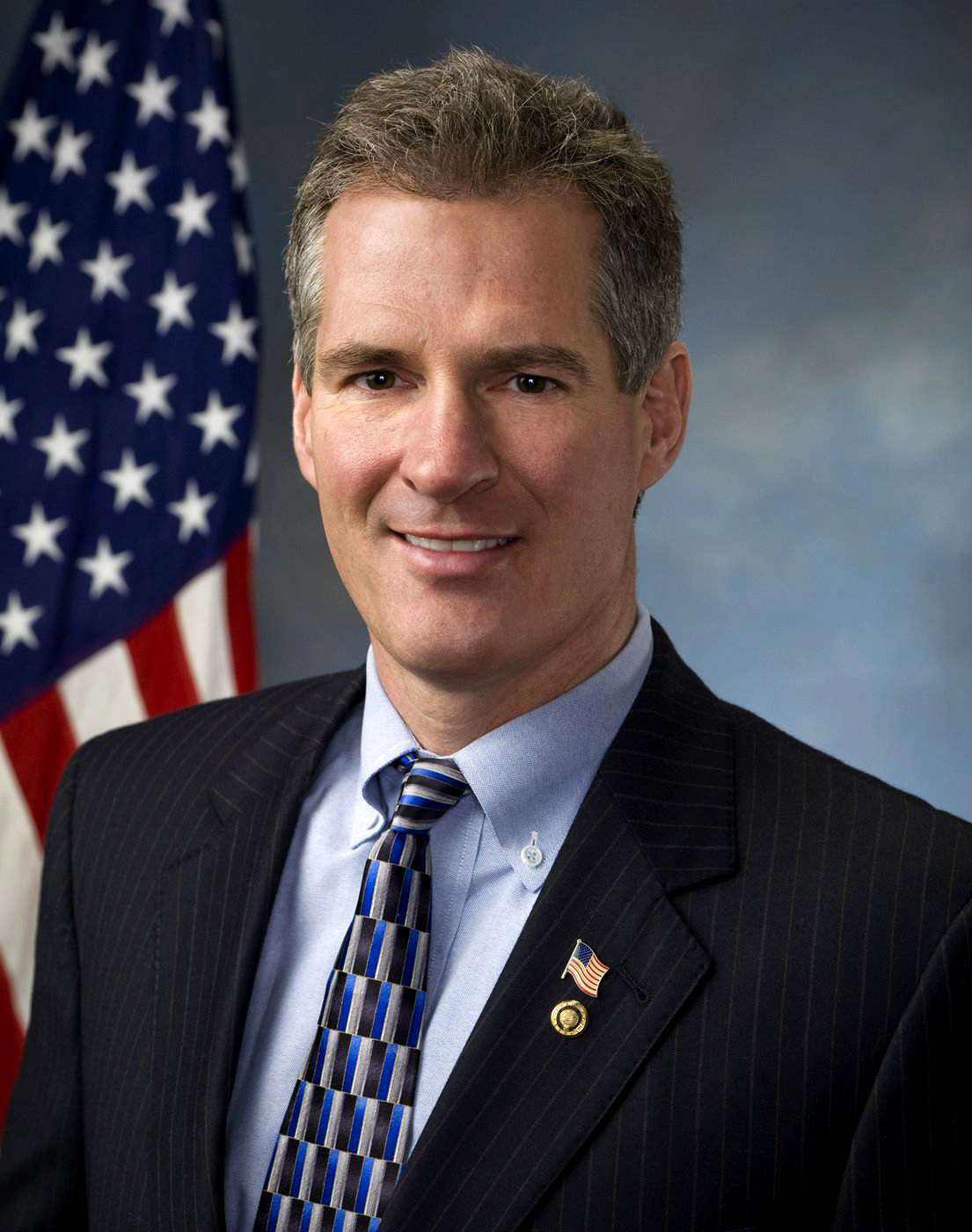 Official portrait of United States Senator Scott Brown of Massachusetts